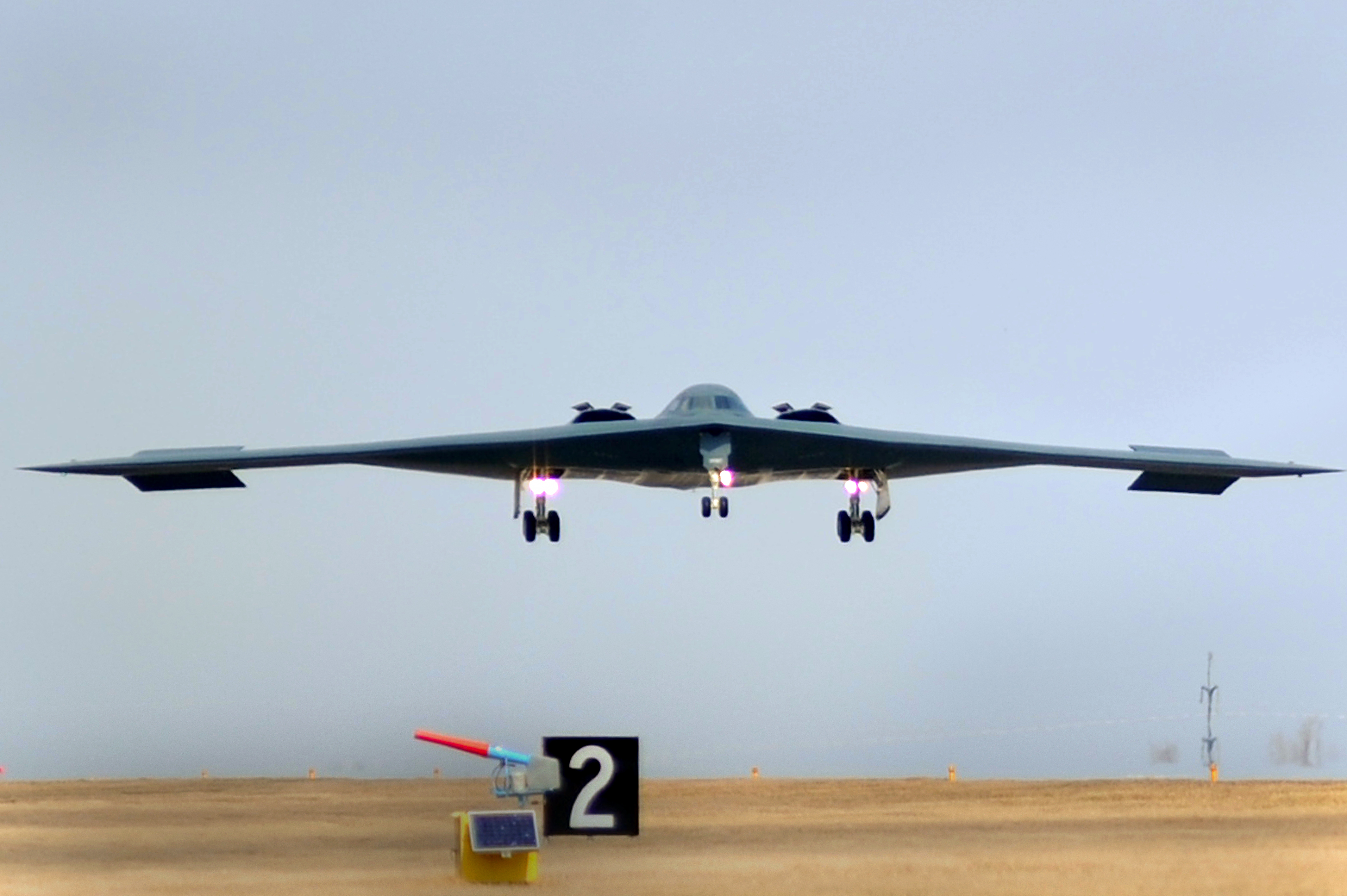 One of three U.S. Air Force B-2 Spirit stealth bomber aircraft returns to Whiteman Air Force Base, Mo., from a mission in supporting the no-fly zone over Libya, March 20, 2011, as part of Joint Task Force Odyssey Dawn. The no-fly zone was imposed by the United Nations Security Council Resolution 1973 authorizing military action.